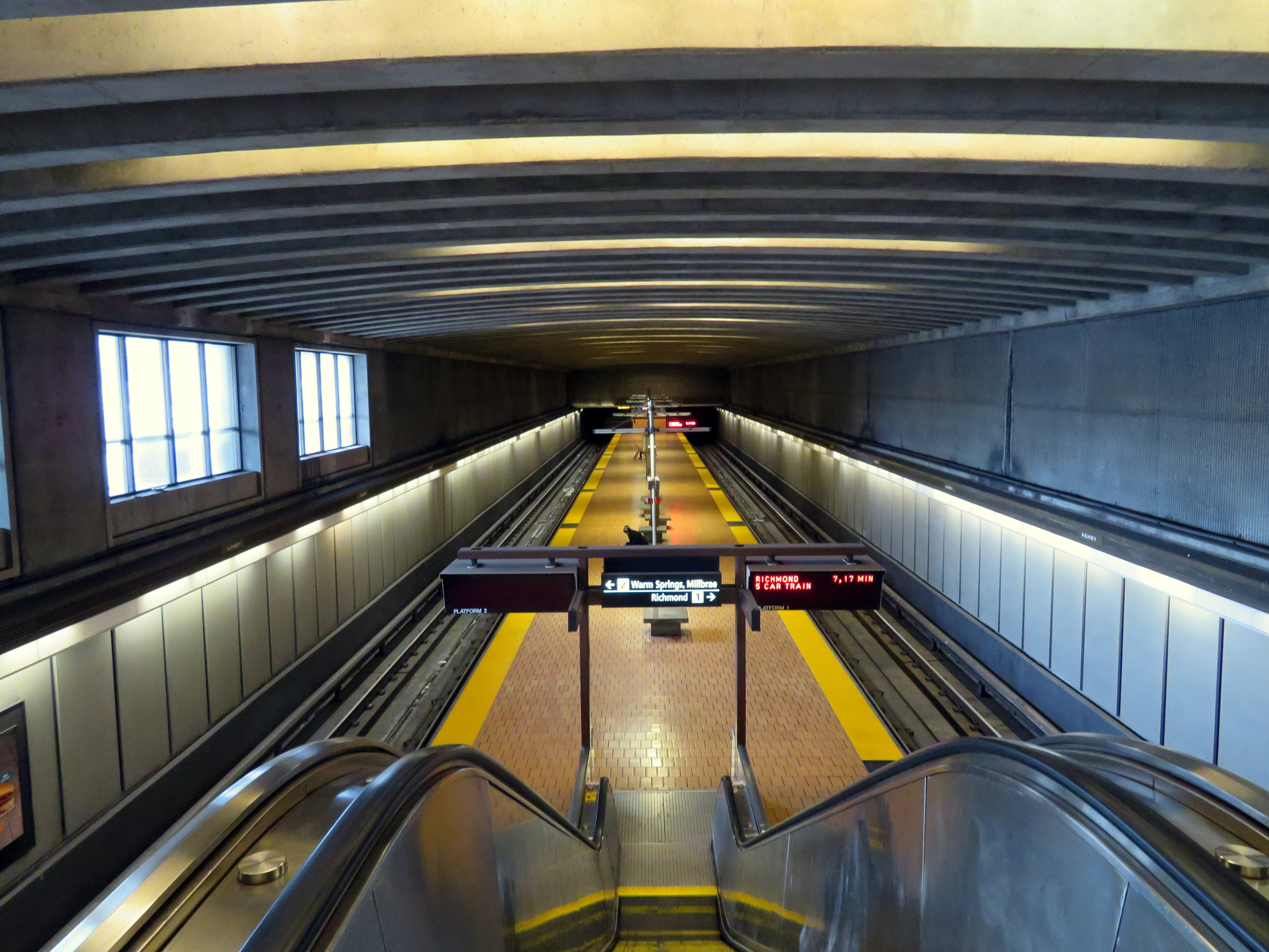 Ashby station in March 2018